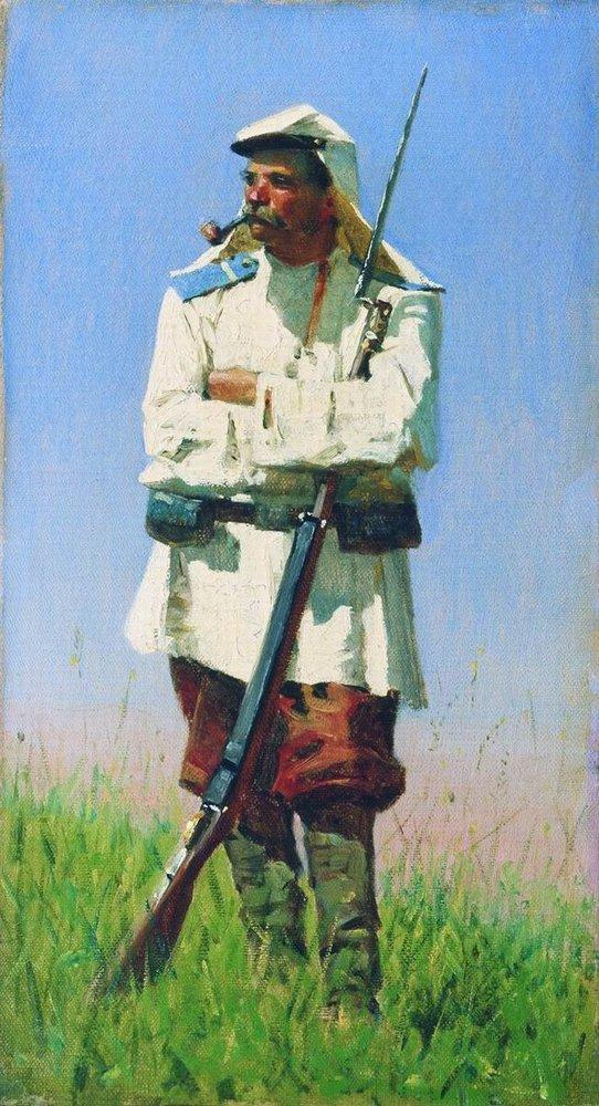 Gefreiter of a Line-battalion in white Gymnastyorka (also Kitel) and red wide breeches’’ (Imperial Russian Army in the Turkestan military region). Turkistan soldier, in summer uniform.